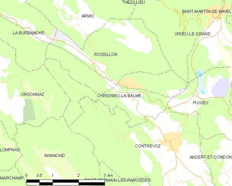 Map of French commune: Cheignieu-la-Balme Map commune FR insee code 01100.png